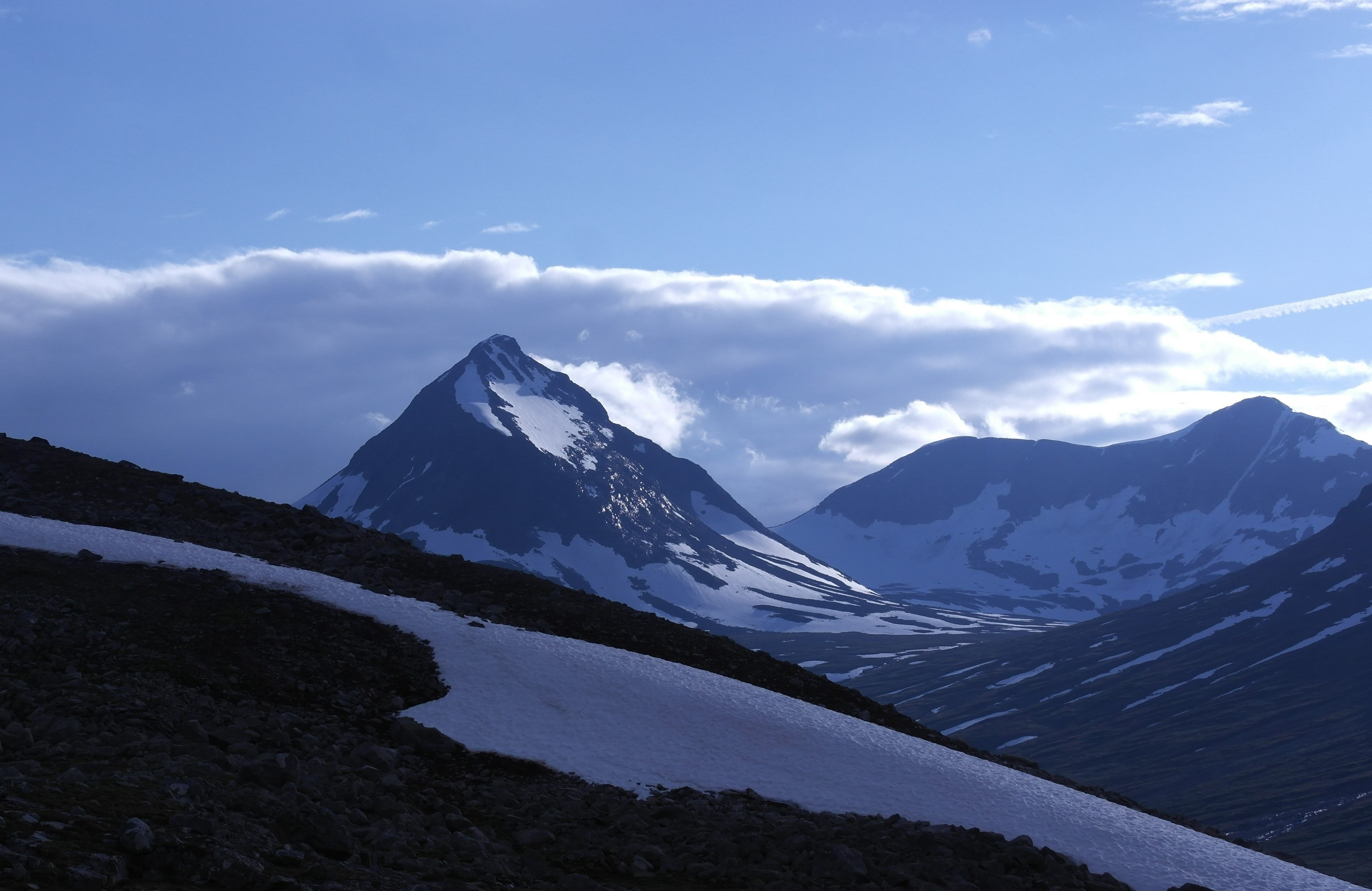 Tverrbytthornet (left) and Midtre Tverrbottindan